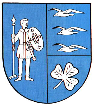 Coat of arms of the municipality of Stadland